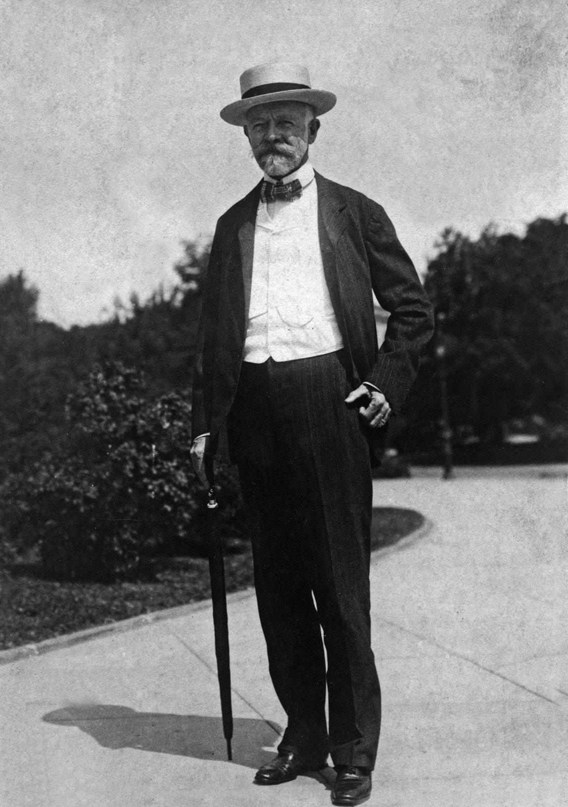 "Henry Cabot Lodge, 1909"